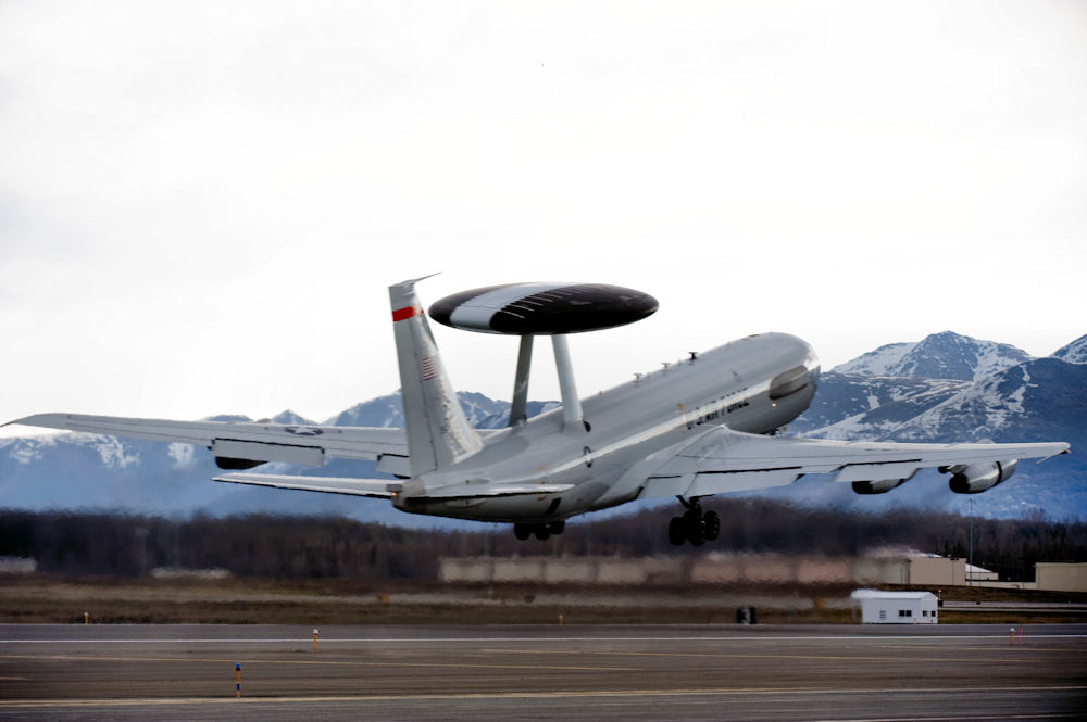 An E-3 Airborne Warning and Control System out of Kadena Air Base, Japan takes off from Elmendorf Air Force Base, Alaska on May 13, 2008. The E-3 AWACS is assigned to the 961st Airborne Air Control Squadron at Kadena Air Base while flying the air war phase of Northern Edge 08. (U.S. Air Force photo/Airman 1st Class Jonathan Steffen)